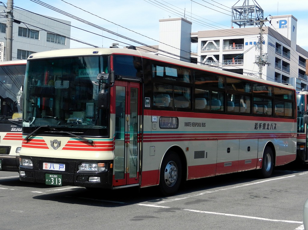 Iwate Kenpoku bus Nissan Diesel Space Arrow (KL-RA552RBN) for highwaybus "Hassey"(Morioka-hachinohe)